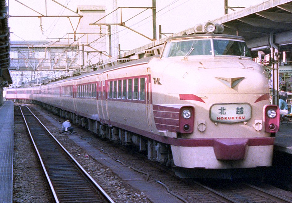 JNR 485 series EMU on a Hokuetsu limited express service at Kanazawa Station